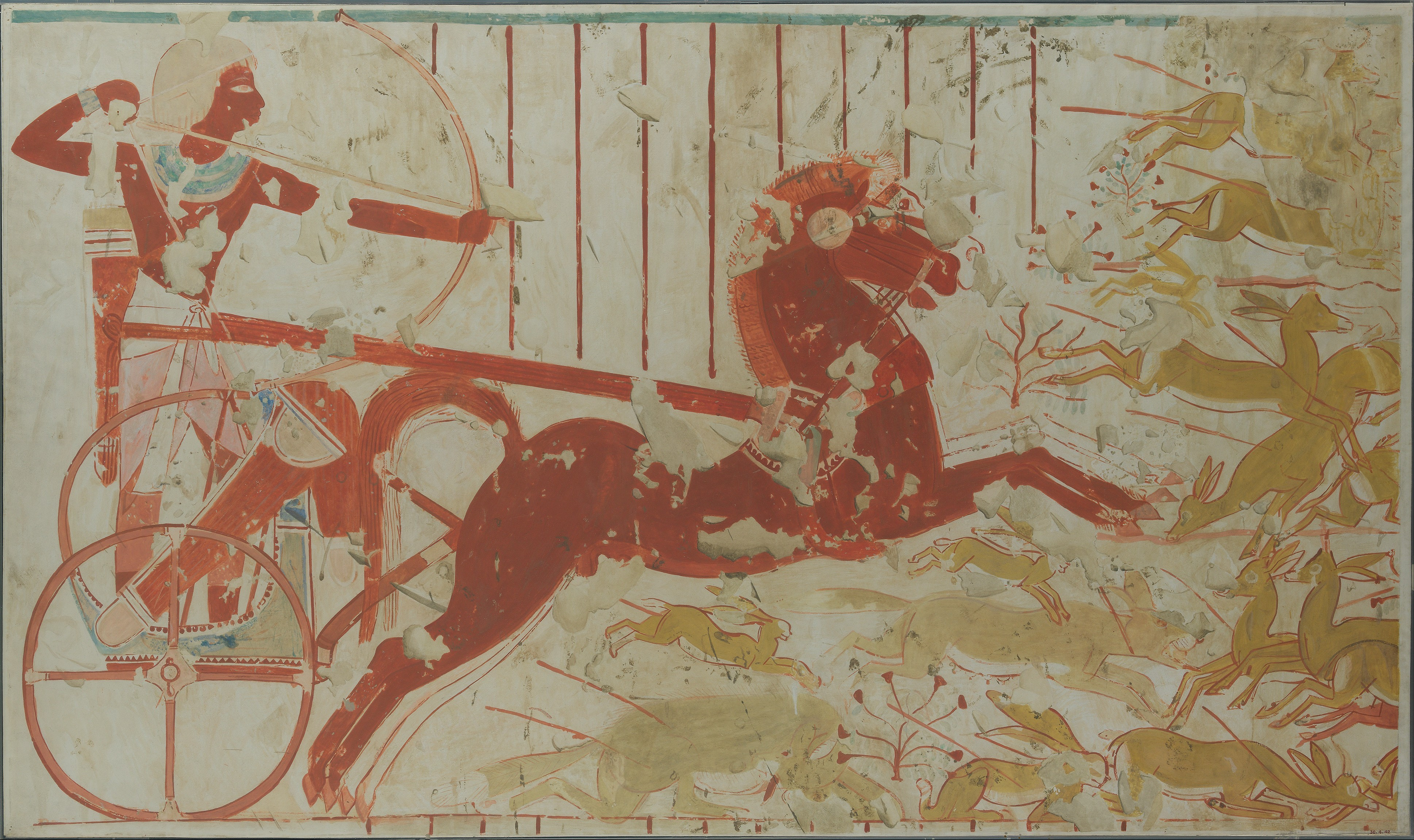 Facsimile, Userhat (TT 56), hunting, chariot